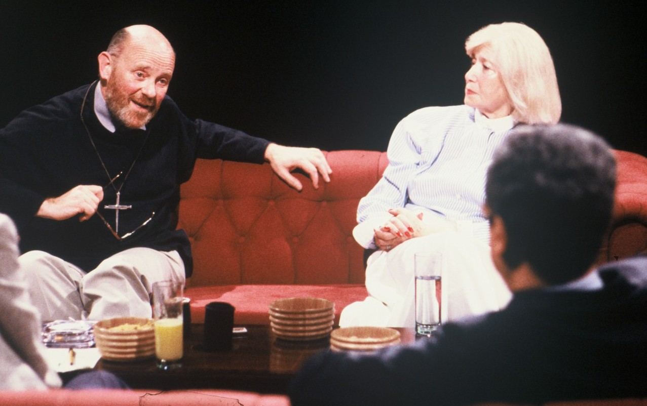 Paul Oestreicher appearing on After Dark on 10 July 1987. Other guests included Gena Turgel (right), Eli Rosenbaum, Neal Ascherson, Philippe Daudy and Jacques Vergès. More here.